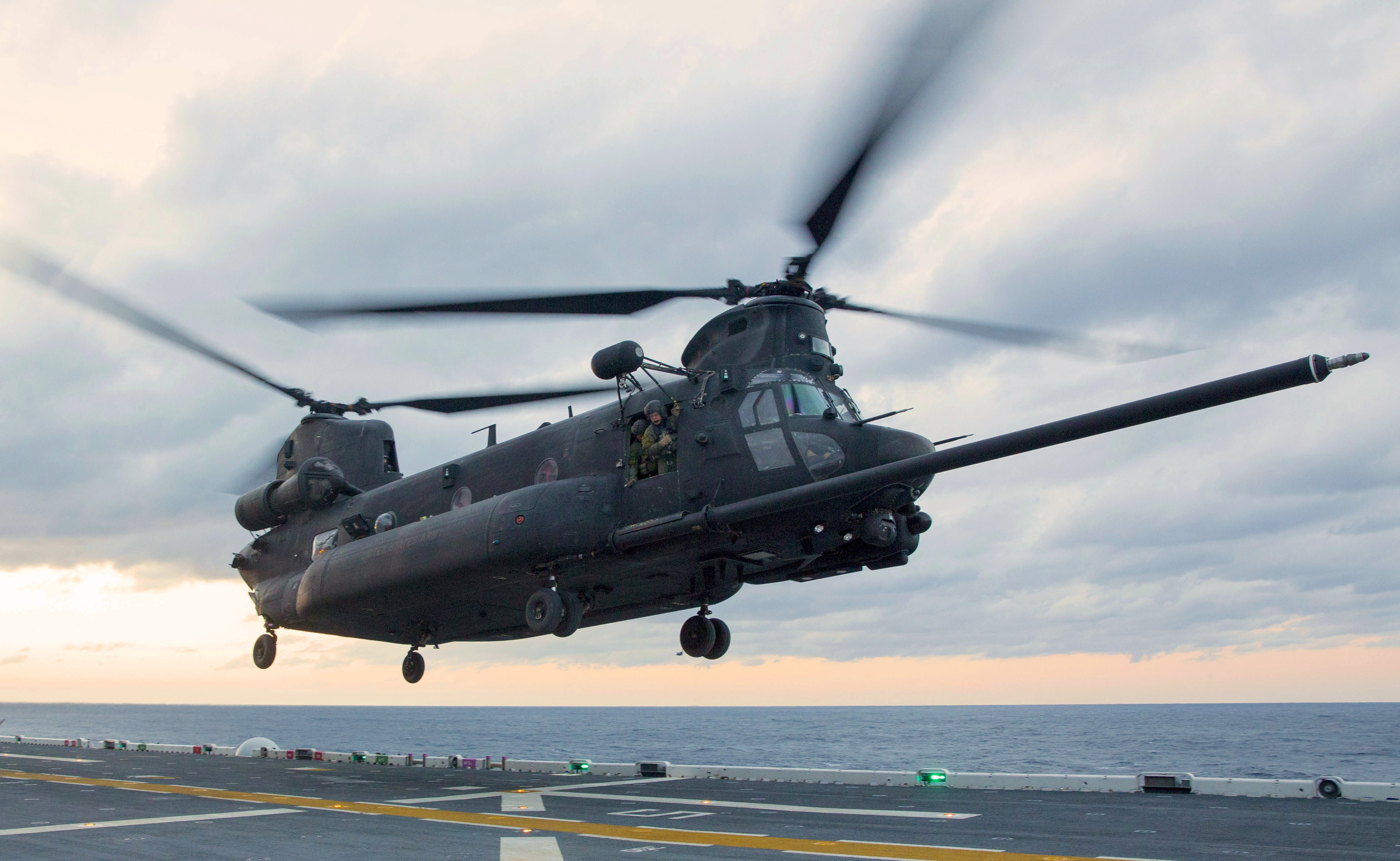 MH-47E Chinook lands on the flight deck of the amphibious assault ship USS Kearsarge (LHD 3). Kearsarge is underway conducting Afloat Training Group basic phase training. (U.S. Navy photo by Mass Communication Specialist 2nd Class Tamara Vaughn/Released)